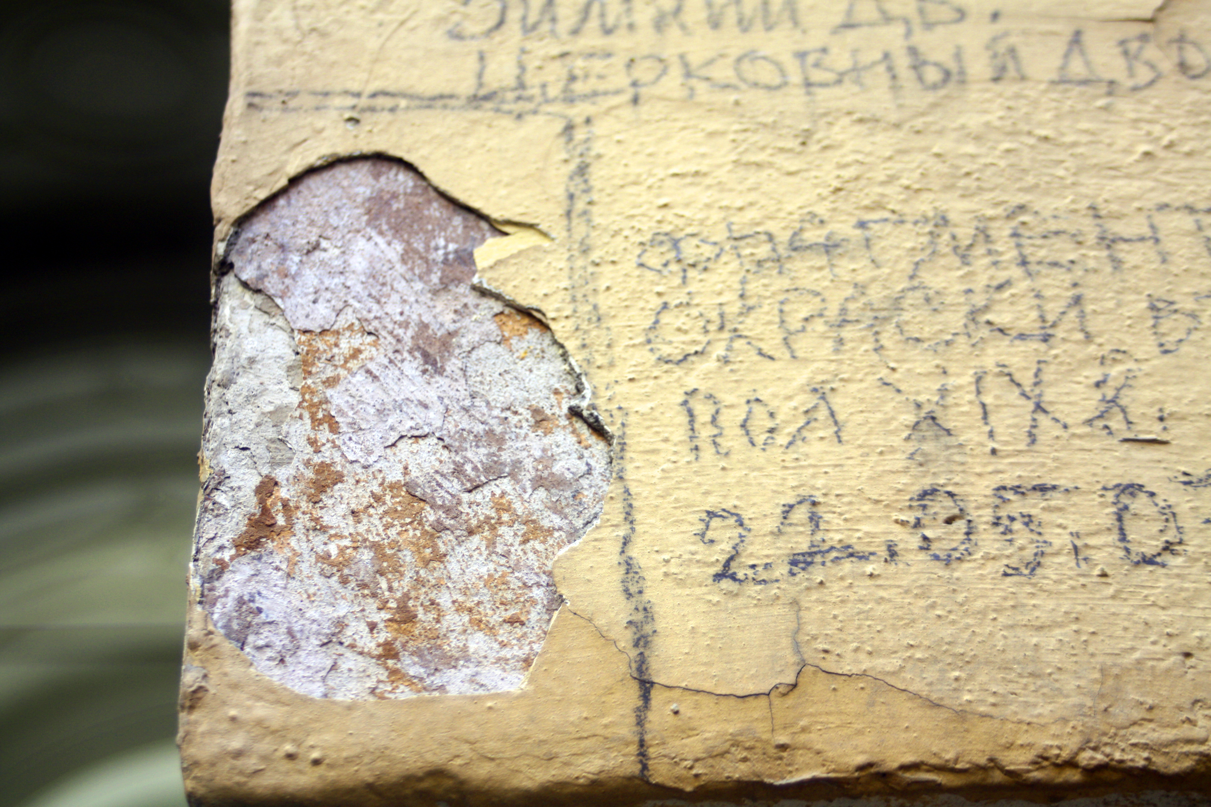 The color of the Winter Palace. Clearing. The State Hermitage Museum, St. Petersburg